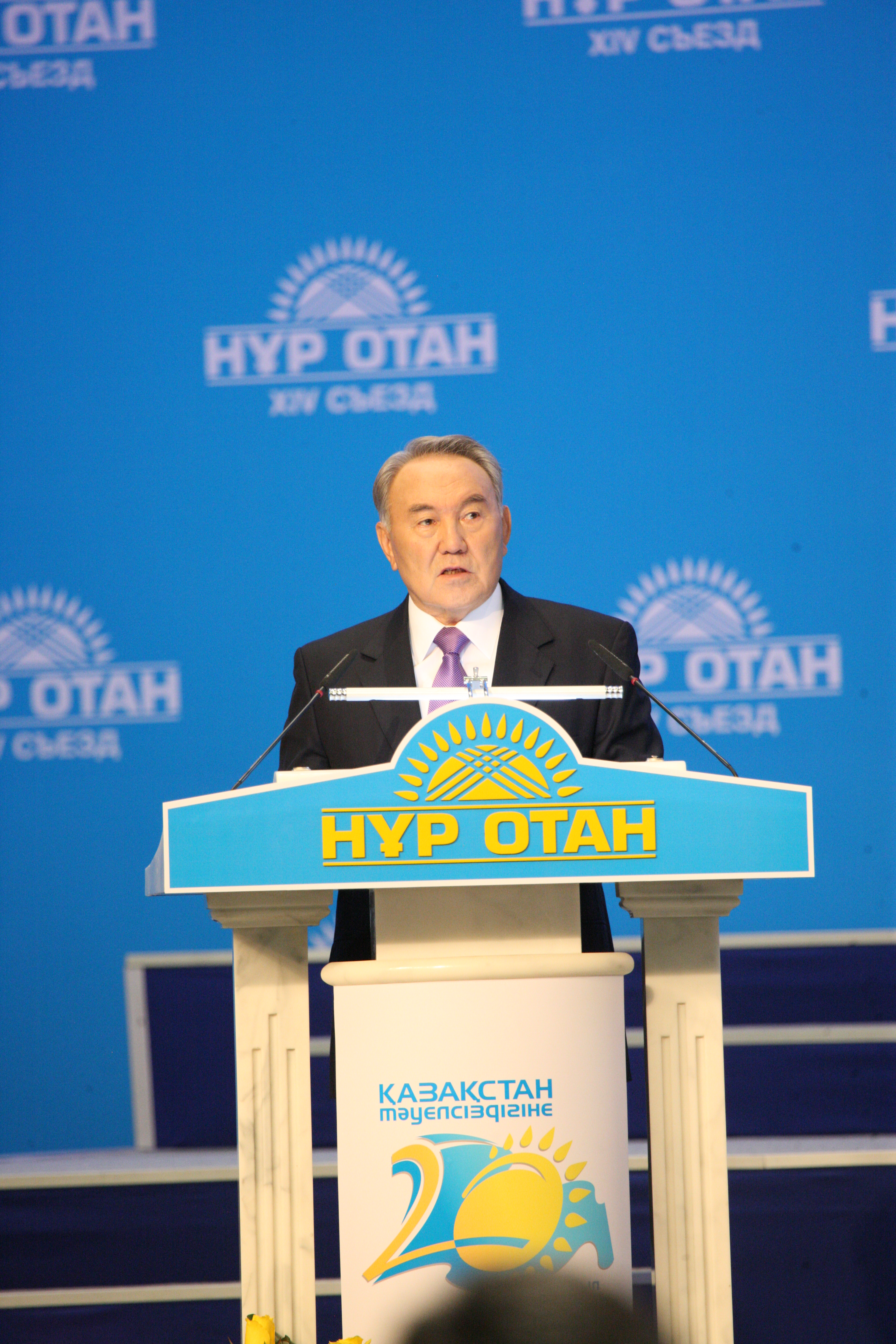 Nursultan Nazarbayev at 2011 XIV Nur Otan Congress